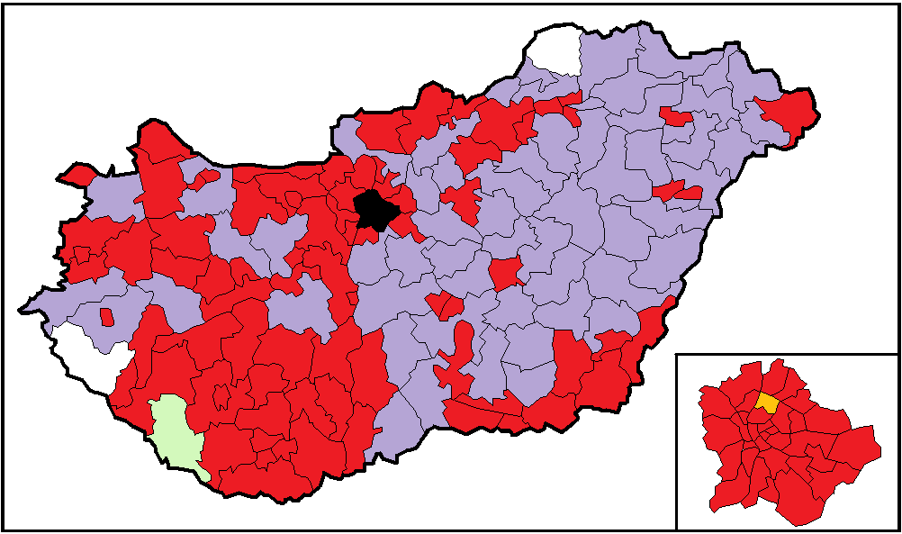 2010 Hungarian parliamentary election, first round: second-place candidates by parties in the single-seat constituencies ██ = MSZP (112) ██ = Jobbik (60) ██ = Somogy Union (1) ██ = Fidesz-KDNP (1) ██ = independent candidate (2)